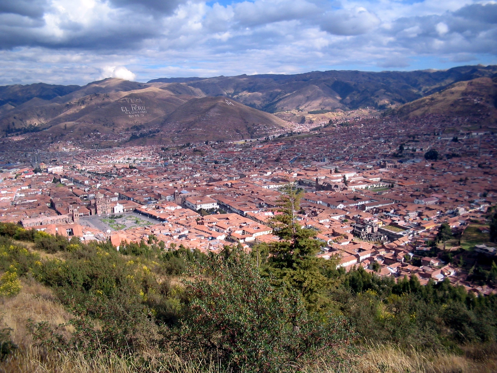 View above Cusco